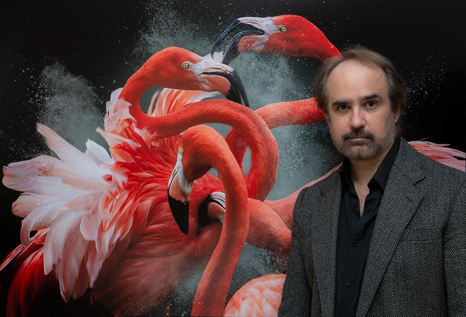 Portrait of photographer Pedro Jarque